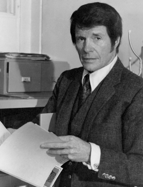 Publicity photo of Robert Horton from Police Woman, 1976.